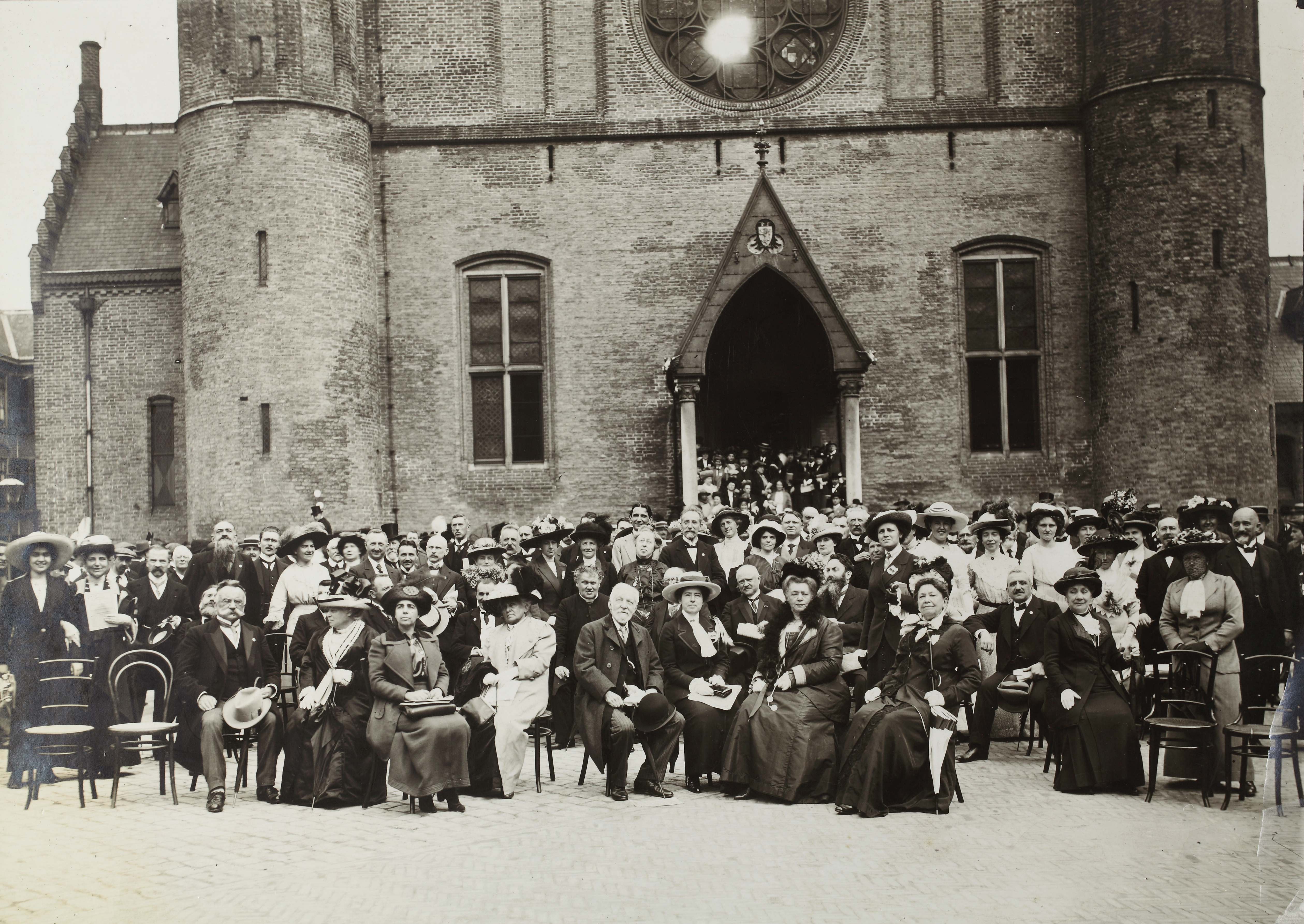 Second Hague Peace Conference (Counts Room), 1907